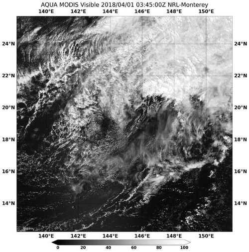 Jelawat Now a Sub-Tropical Cyclone. At 5 am EDT (0900 UTC) on April 1, Jelawat had transitioned into a subtropical cyclone. The storm was located near 19.8 north latitude and 146.0 east longitude, about 103 miles north of Pagan.